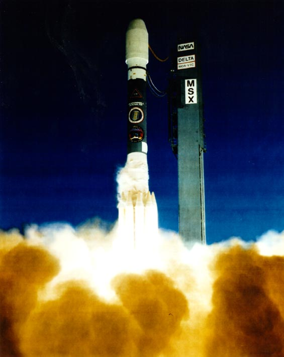 Delta-7920-10 rocket with MSX payload launch